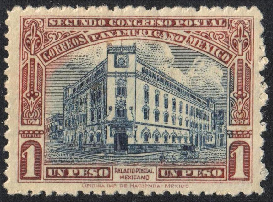 Mexico 1926 Palacio Postal